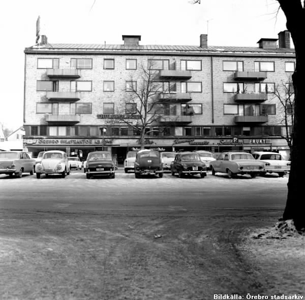 The old market-hall in Örebro, Sweden.